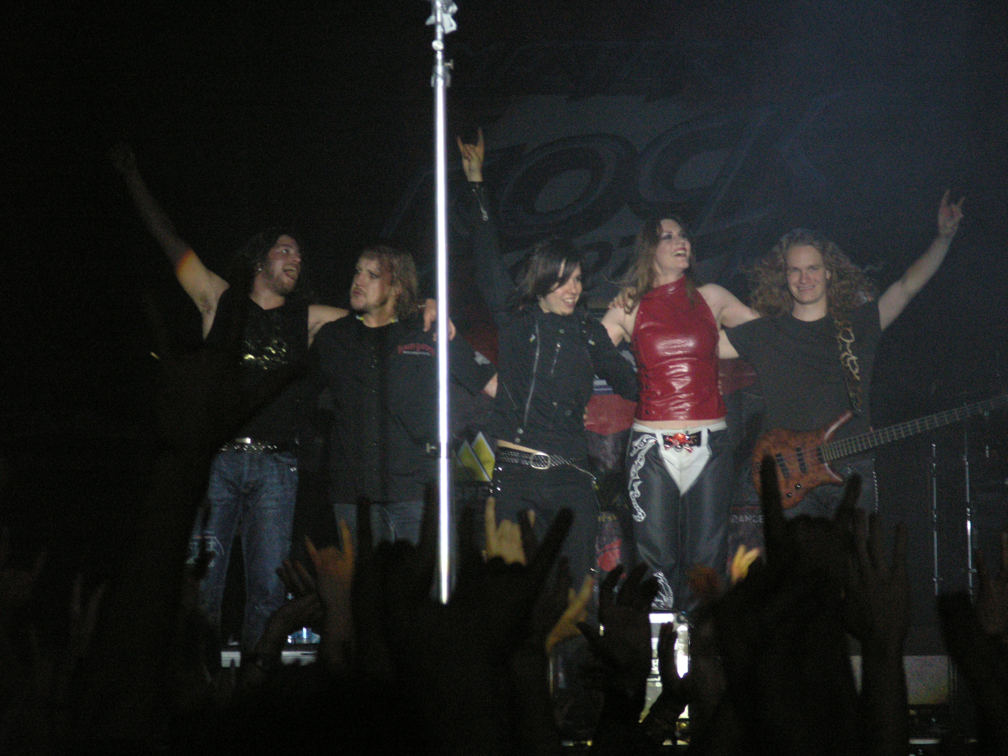 Music band After Forever during Masters of Rock 2007 festival